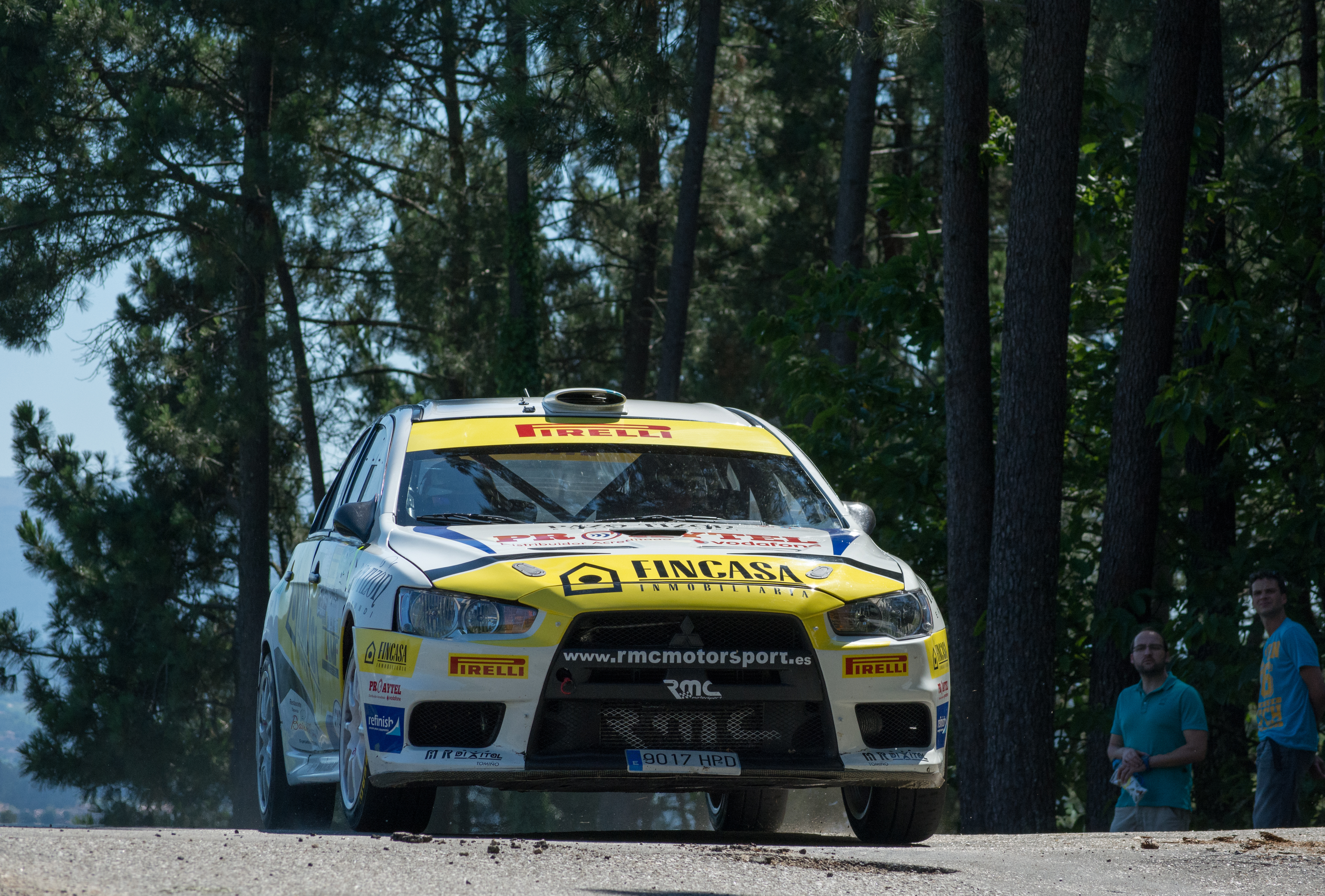 Rally Sur do Condado 2016